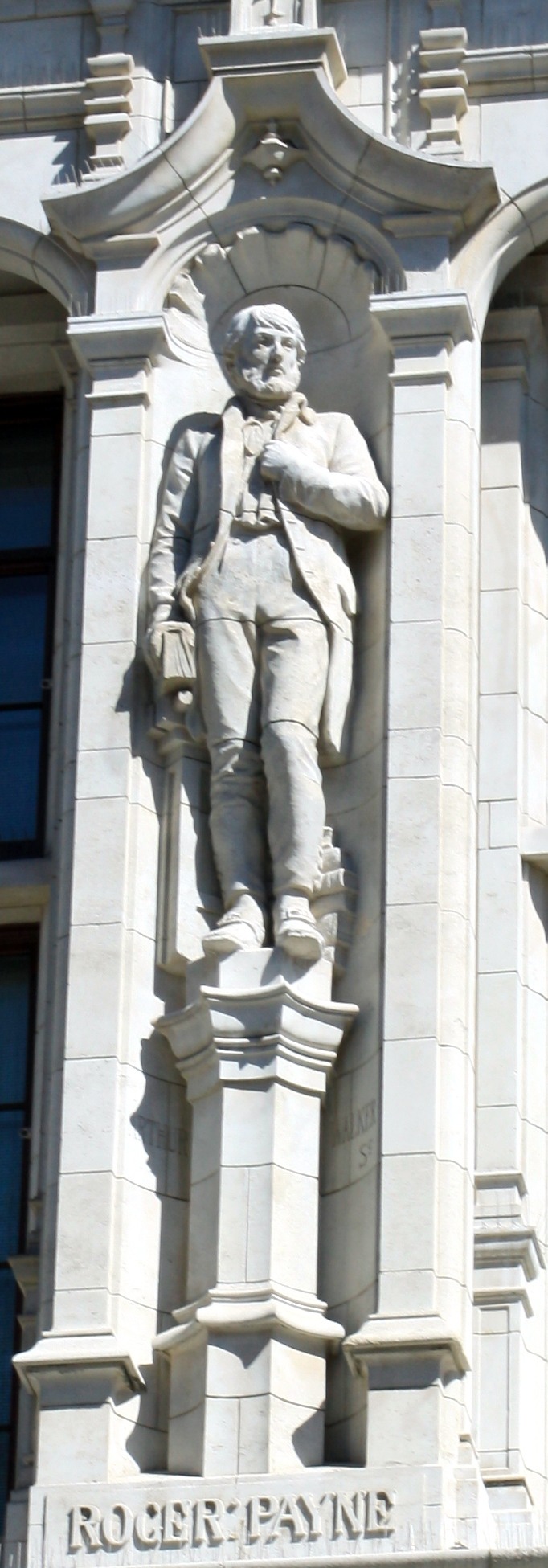 Statue of Roger Payne at Victoria and Albert Museum in the Royal Borough of Kensington and Chelsea, London, Great Britain, by Arthur George Walker The making of this file was supported by Wikimedia UK.